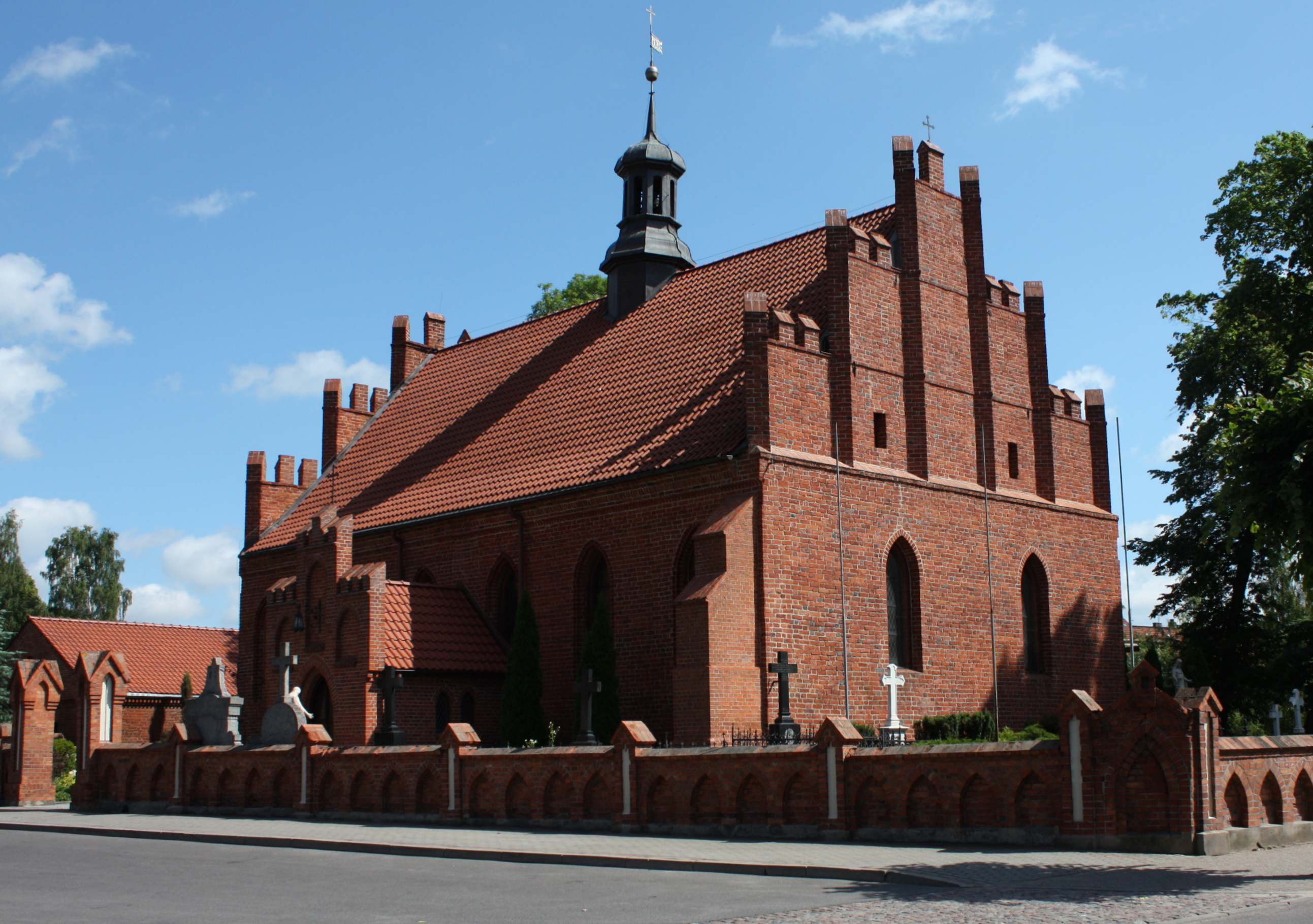 Corpus Christi Church in Pelplin